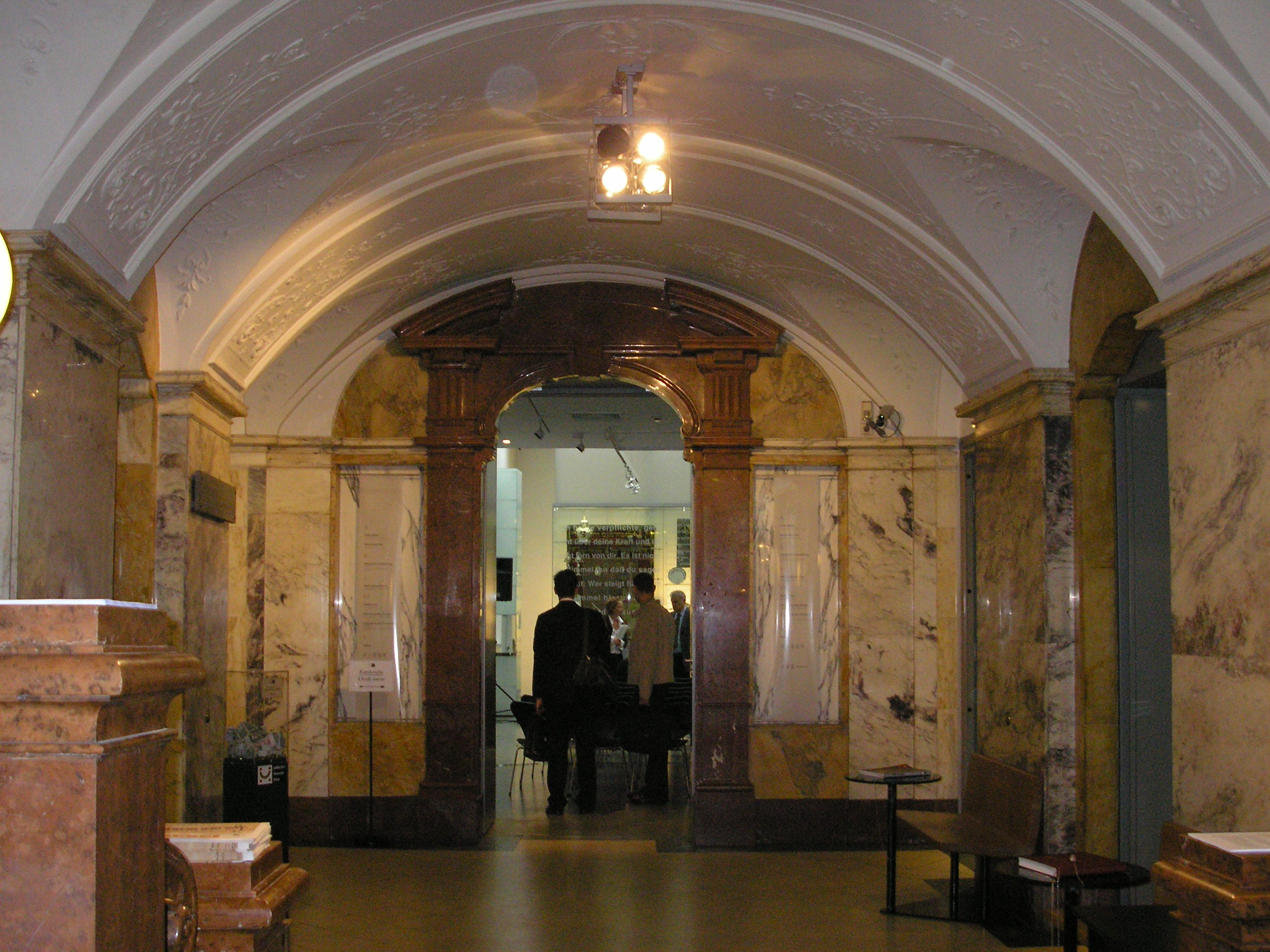 Entrance area (Foyer) of the Palais Eskeles in Vienna, housing the Jewish Museum Vienna.